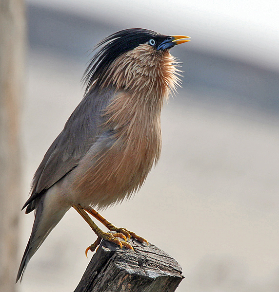 Brahminy Starling Sturnus pagodarum at/ near Hodal in Faridabad District of Haryana, India.